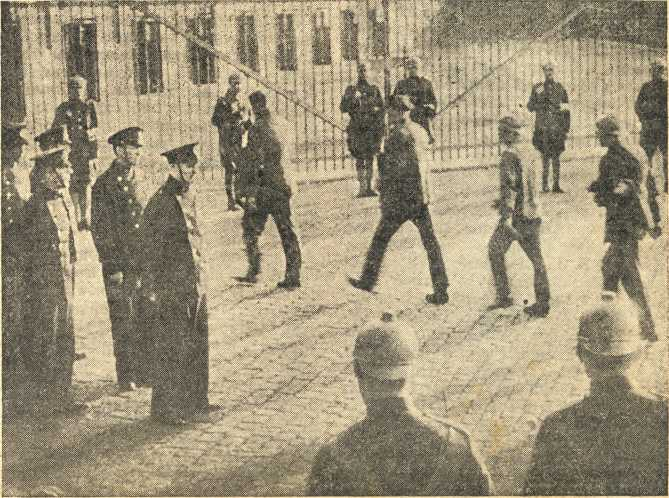 "Streikbrechers going to workplace" - a shot from V. Pudovkin's movie Deserters (1933)